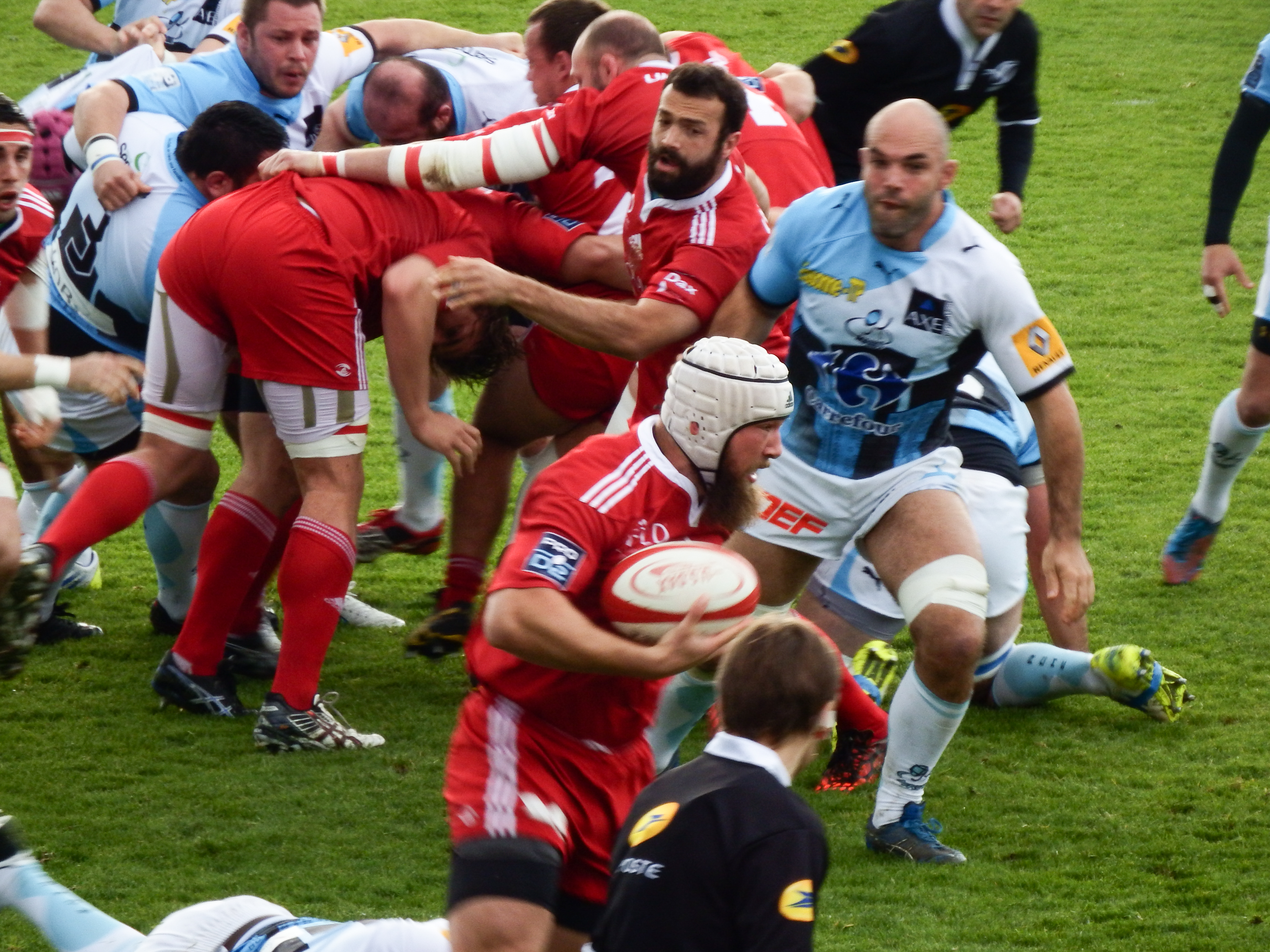 Pro D2 2014-2015 — 4 April 2015, stade Maurice-Boyau. Match between: US Dax — RC Massy